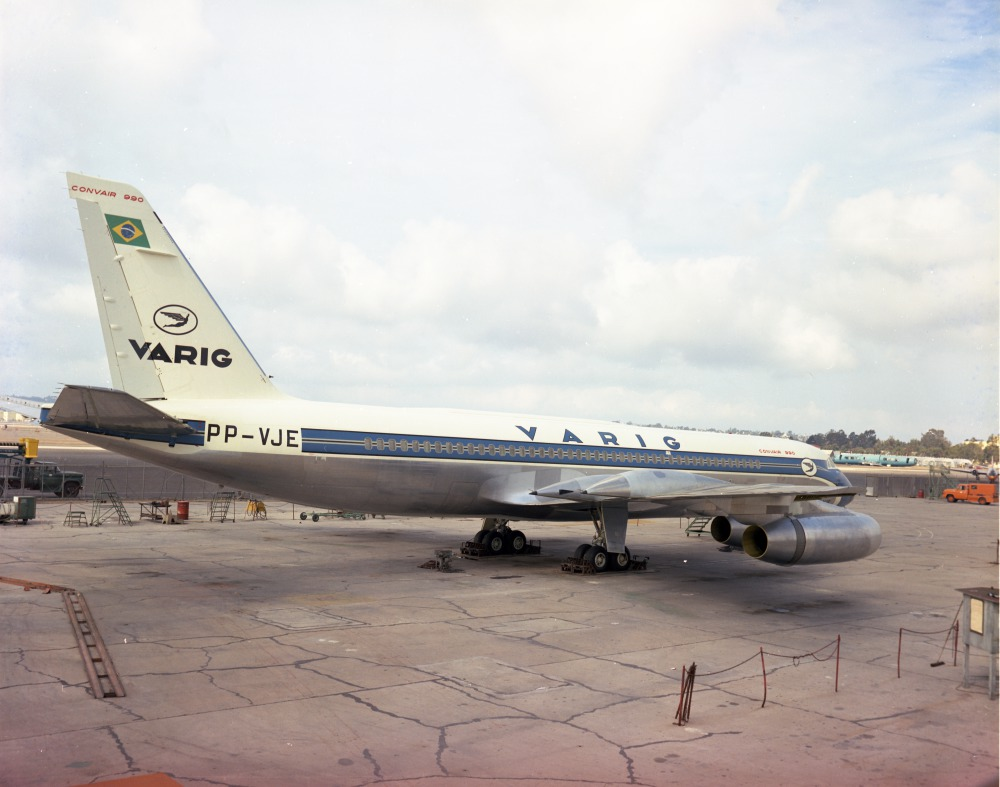 Convair 990 079-63